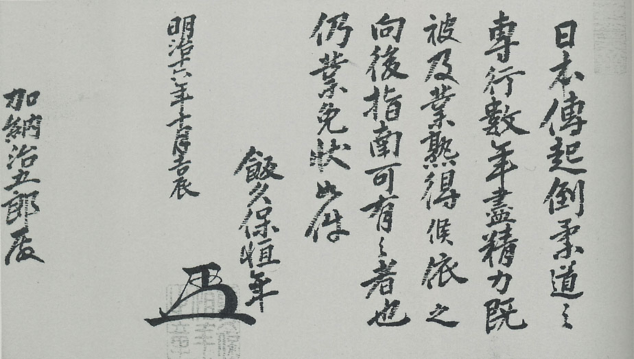 The Jigoro Kano's Kito-ryu Judo certificate